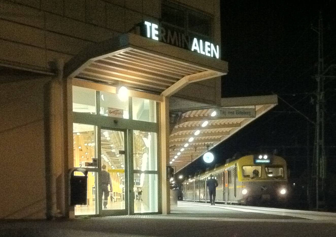 Night shot of "Alingsås terminalen", the main facility of the transport hub in central Alingsås. The depicted building is the a bus and commutor train terminus.